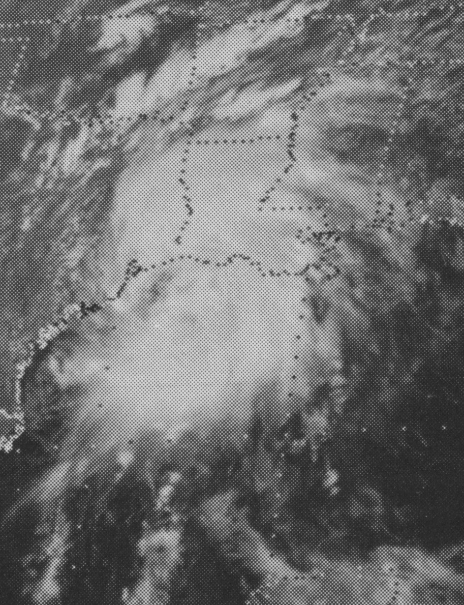 This weather satellite image of Tropical Storm Debra was taken on August 28, 1978 during the afternoon